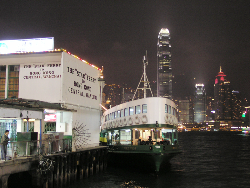 The photograph features the fascinating night view of the Victoria Harbour of Hong Kong in two layers, with Tsim Sha Tsui, Kowloon Peninsula in the foreground, the Central, Hong Kong Island (the opposite side of the harbour) in the background. In the foreground is a ferry of the Star Ferry, one of the oldest cross-habour transport services in Hong Kong, parking at the pier. In the background are the two office towers of the International Finance Centre (the taller "2ifc" on the left and the shorter "1ifc" on the right), which were constructed and opened in recent years. The foreground and the background create a strong contrast between the old and the new in Hong Kong. This photograph was taken by Alan Mak, the nominator, in December 2005. Category:Images of Hong Kong Category:Central, Hong Kong Category:Piers in Hong Kong